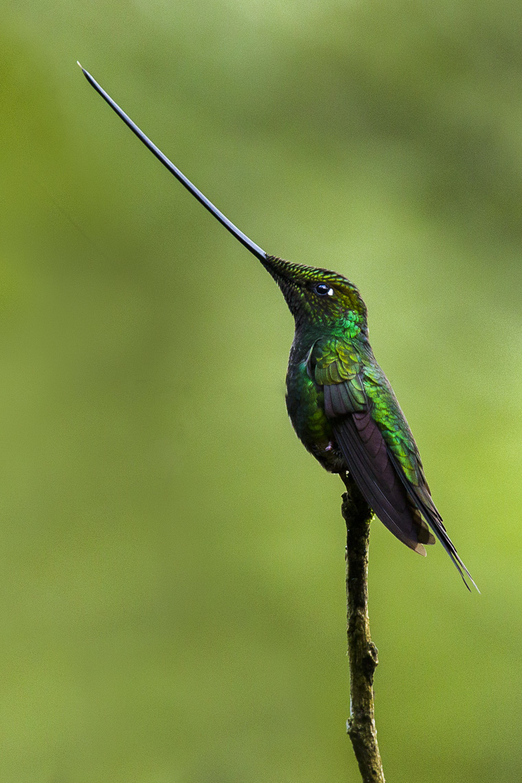 Sword-billed Hummingbird - Ecuador_S4E4619